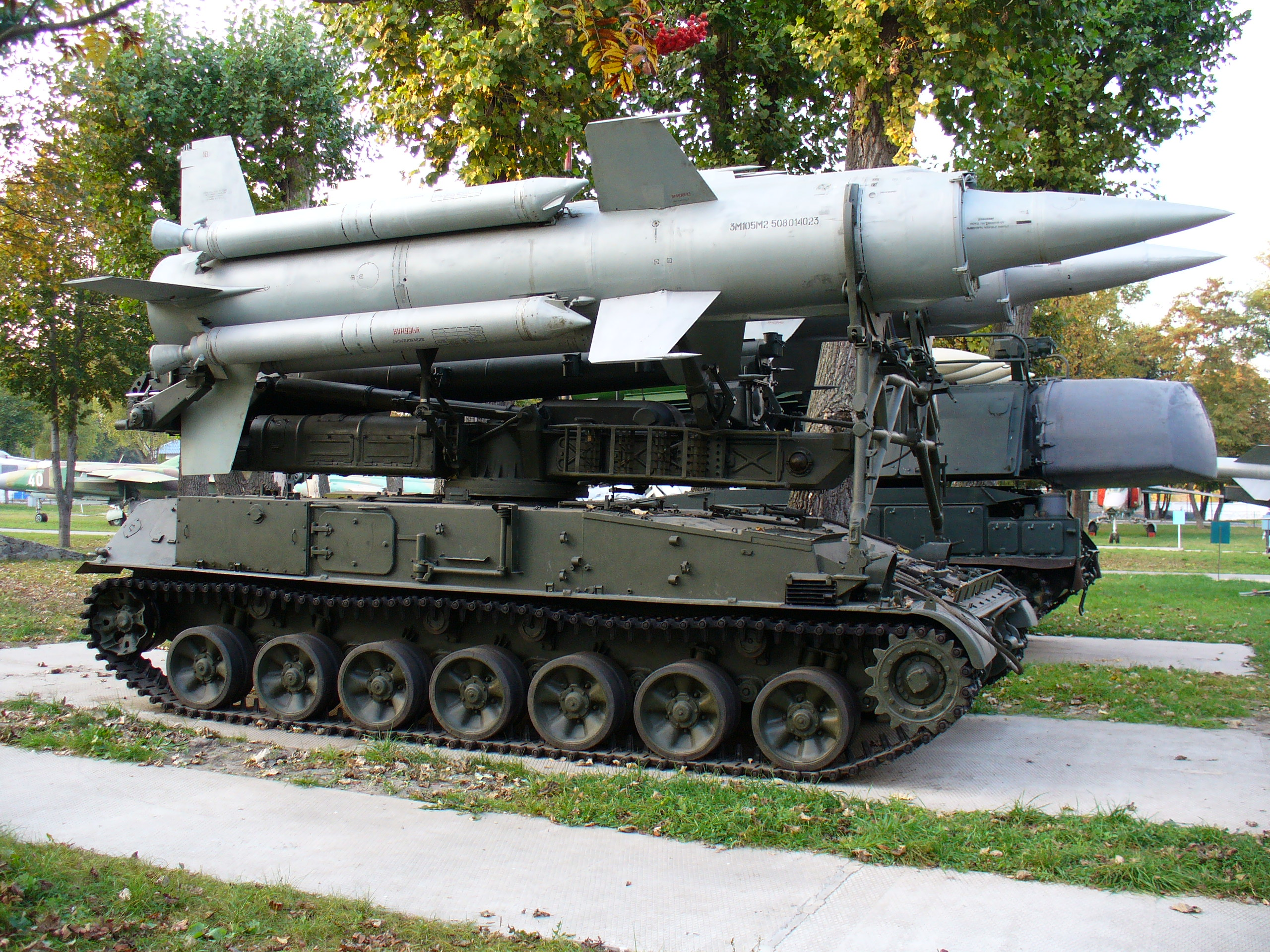 Soviet and Russian surface-to-air missile (SAM) system "2K11". NATO reporting name is SA-4 Ganef. Ukrainian Air Force Museum in Vinnitsa.